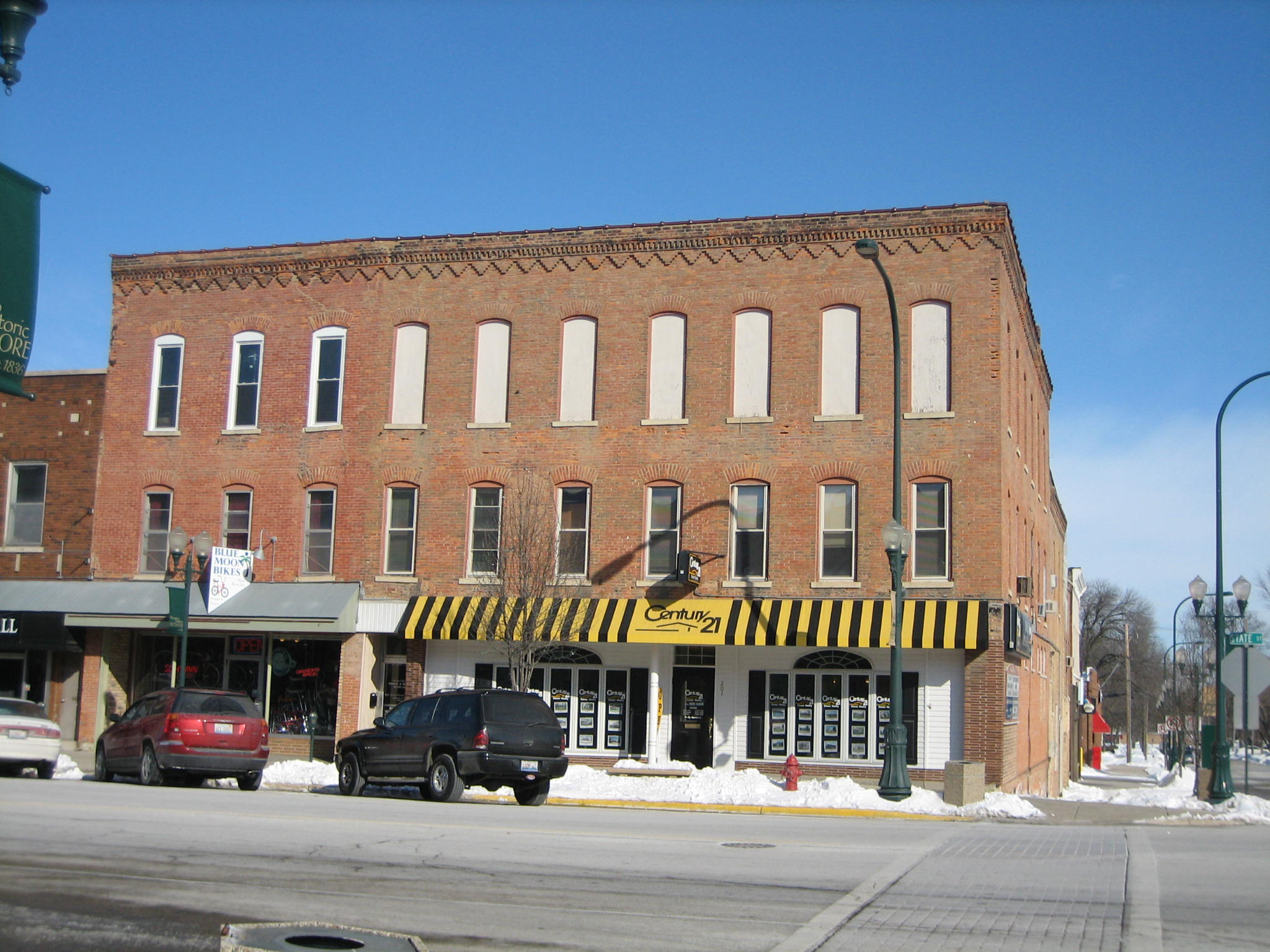 The George's Block, 201-211 W. State Street, Sycamore, Illinois. Sycamore Historic District, National Register of Historic Places.